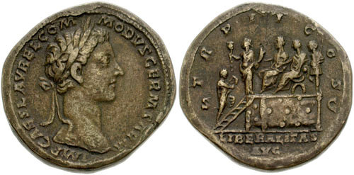 COMMODUS. 177-192 AD. Æ Sestertius (21.36 g). Struck 177 AD. IMP CAES L AUREL COM-MODUS GERM SARM, Laureate head right Marcus Aurelius and Commodus seated left on platform, officer beside them; Liberalitas standing left before them, holding abacus and cornucopiae; on steps, citizen standing right, holding out fold of toga; LIBERALITAS AUG in exergue. RIC III 1558 (Marcus Aurelius).